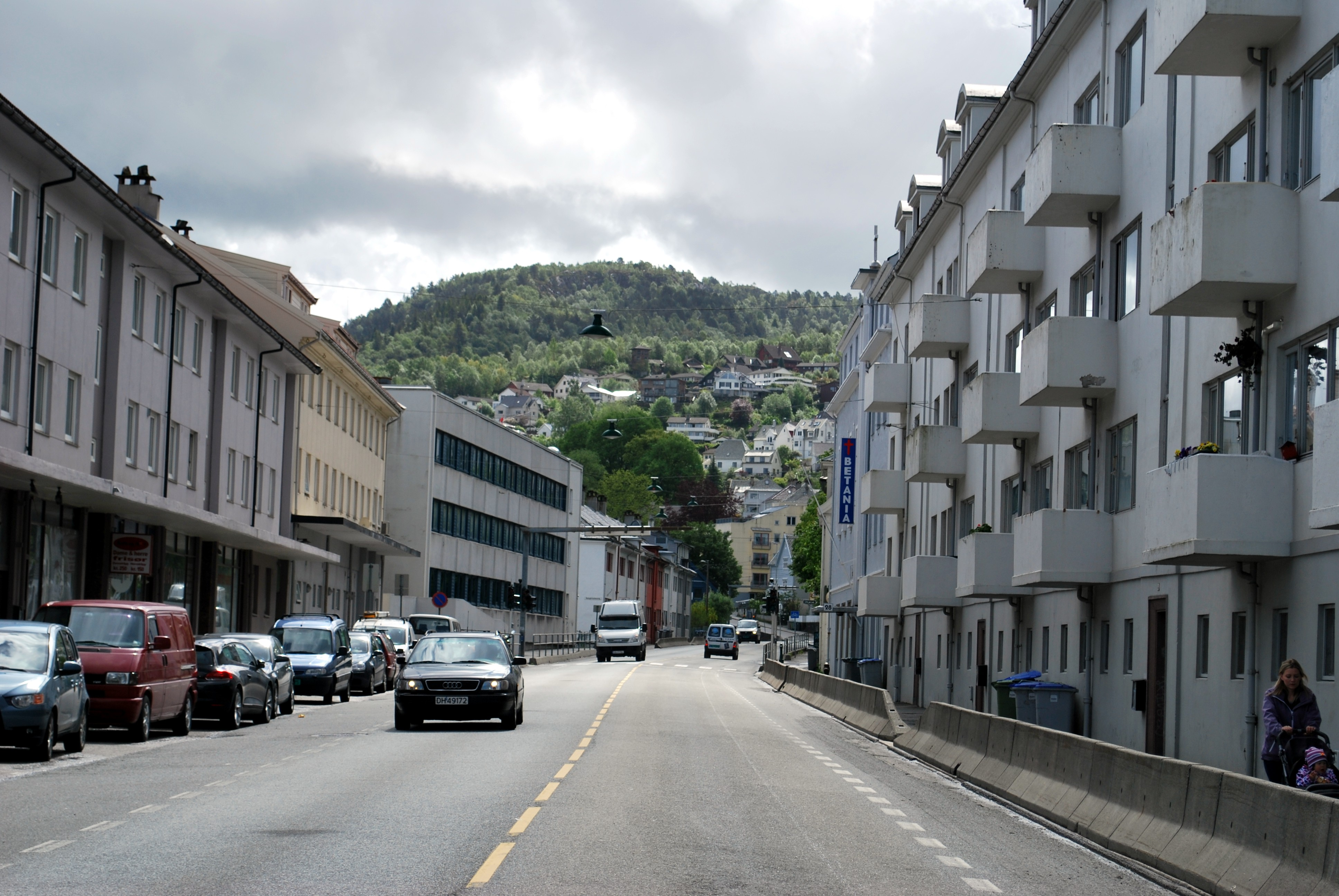 Kringsjåveien at Laksevåg in Bergen. View towards Damsgård og Ravnefjellet.